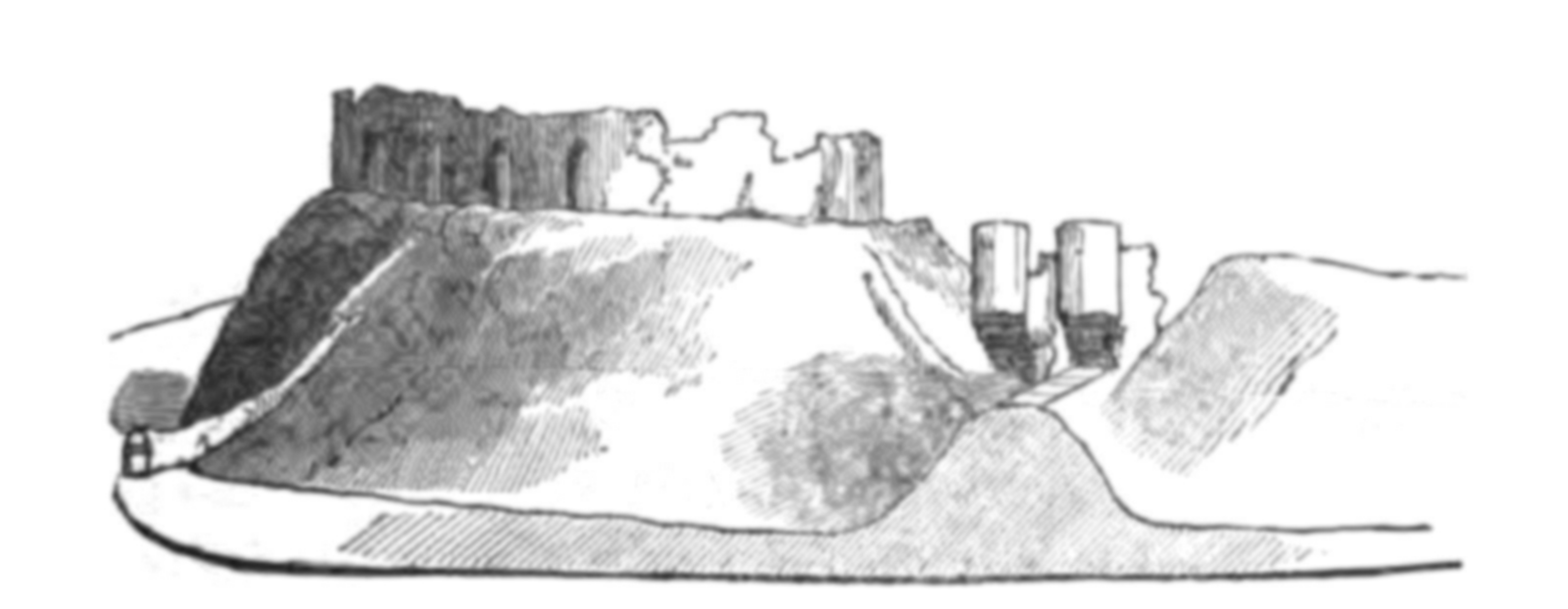 Cross section sketch of Castle Acre Castle